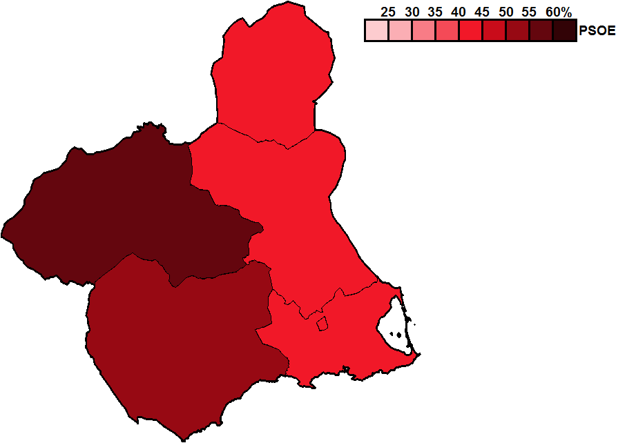 District results for the 1991 Murcian regional election.